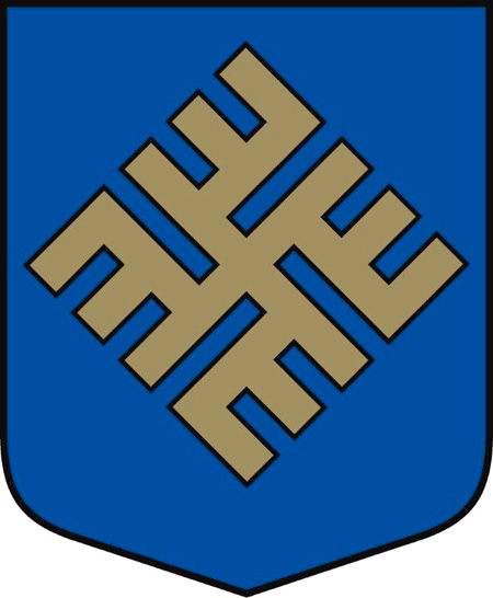 Coat of arms of Stāmerienas pagasts, Latvia